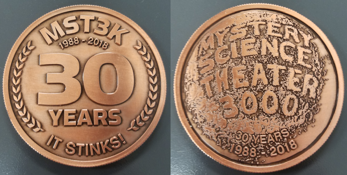 The front and back view of the 30th Anniversary Mystery Science Theater 3000 challenge coin.